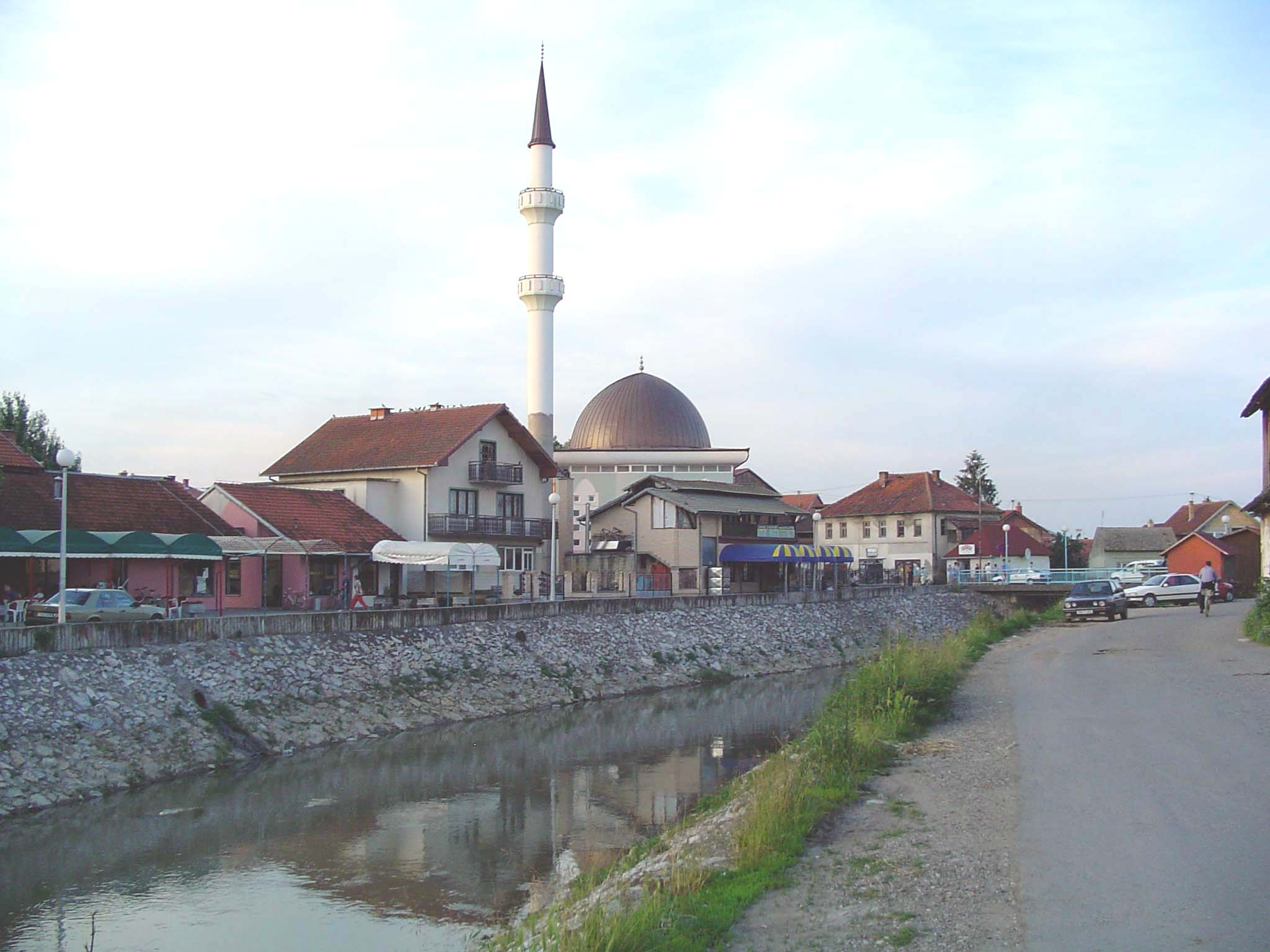 Centar Janje